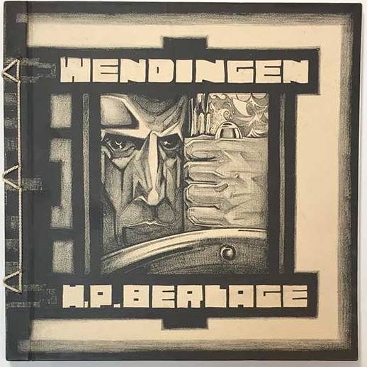 Cover of art Dutch art magazine Wendingen, Nov-Dec 1920. Design by Jacob Jongert